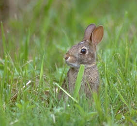 Young wild rabbit photographed in the Midwestern U.S. Copyright 1995 Steven J. Dunlop, Nerstrand, MN, USA. Released under the GFDL; all other rights reserved.